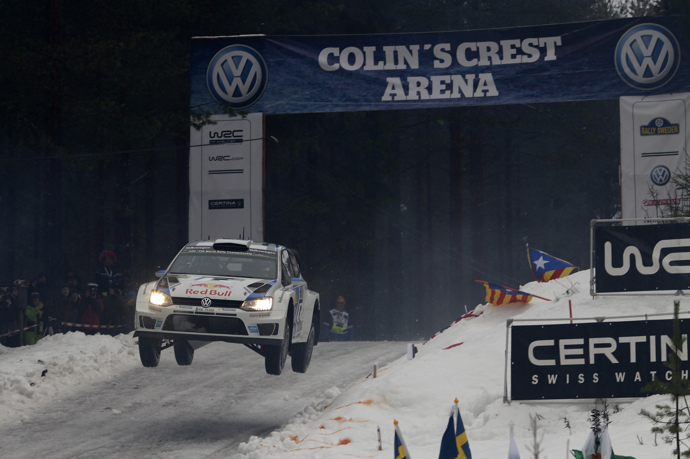 Sébastien Ogier and co-driver Julien Ingrassia in their VW Polo R WRC at "Colin's Crest" at the 2014 Rally Sweden.